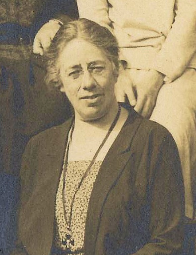 Lynda Grier (1880-1967), former principal of Lady Margaret Hall, Oxford. Photo from the archives of Lady Margaret Hall